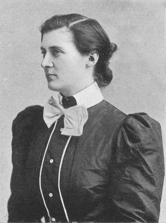 Toupie Lowther (1875-1944 ?), English Tennis player, German champion 1901, British Indoors champion 1900, 1902, 1903.